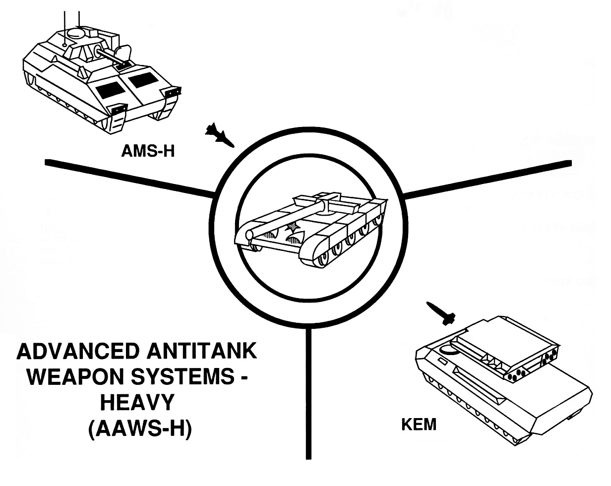 AAWS-H concept.